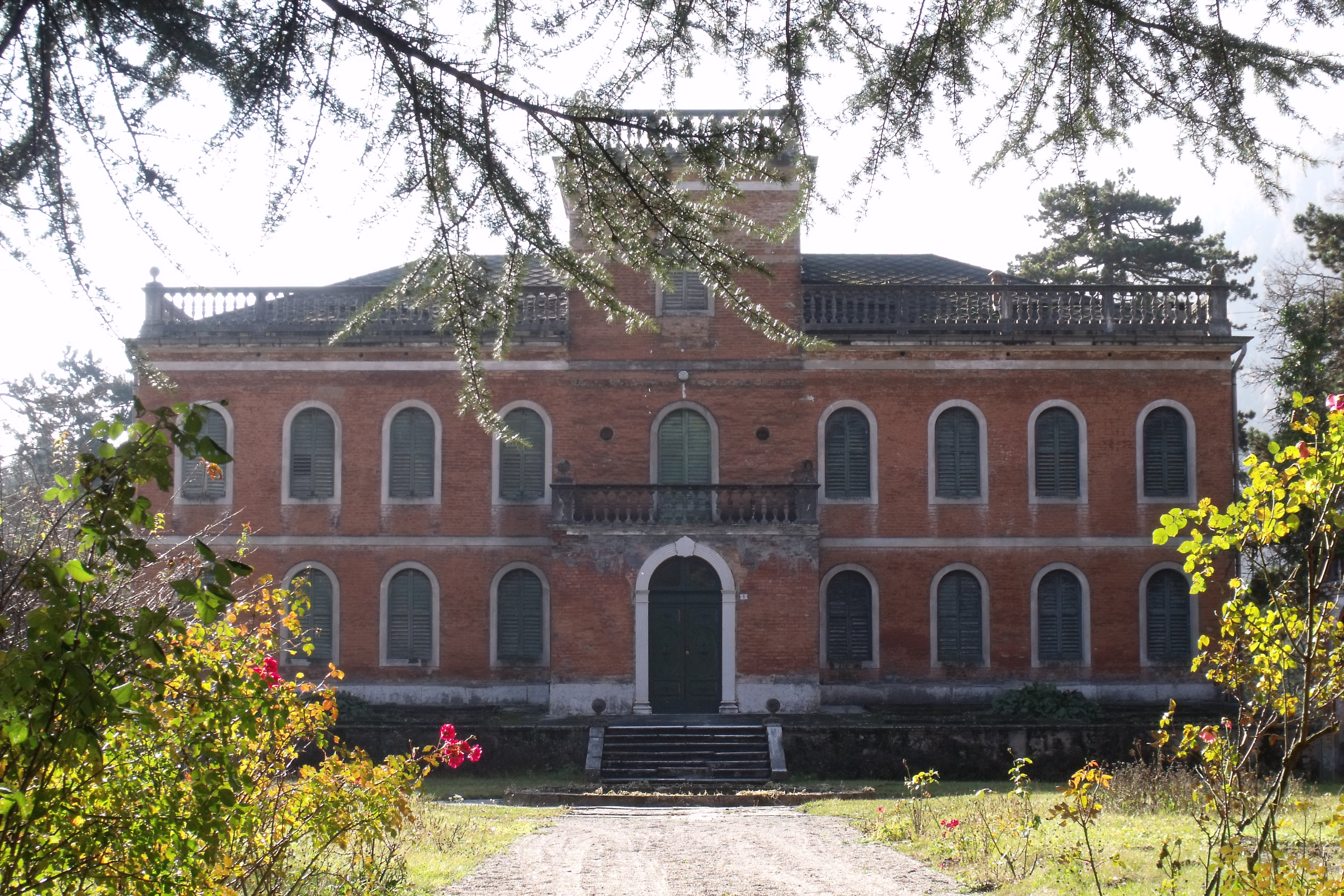 The Villa Daziaro in Pieve Tesino, Province of Trento (Trentino), Italy